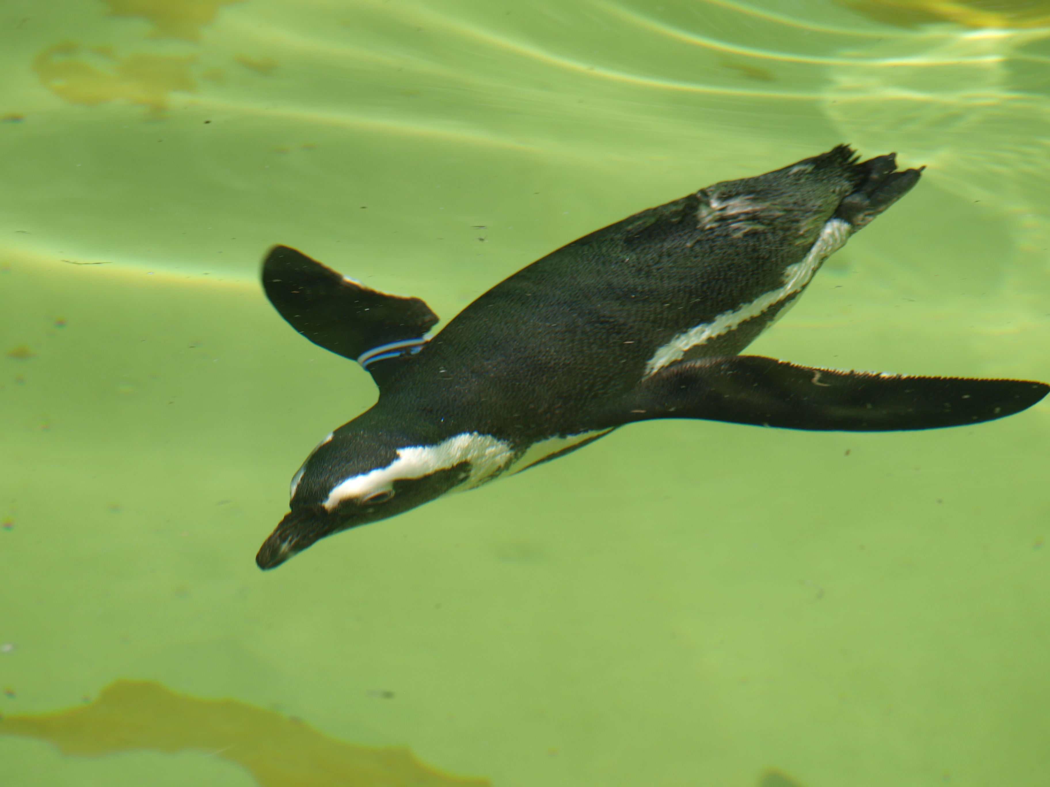 An African Penguin swimming underwater at Berlin Zoo, Germany.